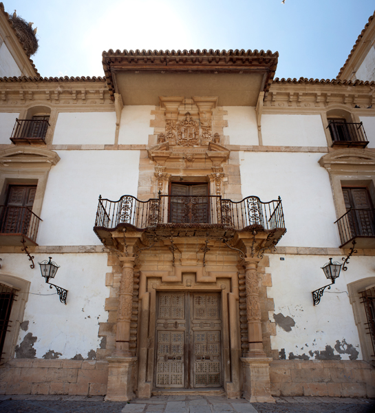 Casa Palacio de las Torres; Tembleque, Castilla la Mancha, Toledo, Spain; ; ref: PM_080113_E_Tembleque; Casa Palacio de las Torres; Photographer: Paul M.R. Maeyaert; © Paul M.R. Maeyaert; ; Cultural heritage; Europeana; Europe/Spain/Tembleque (Castilla la Mancha)